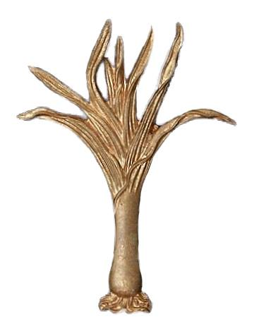 Welsh Guards Cap badge photo